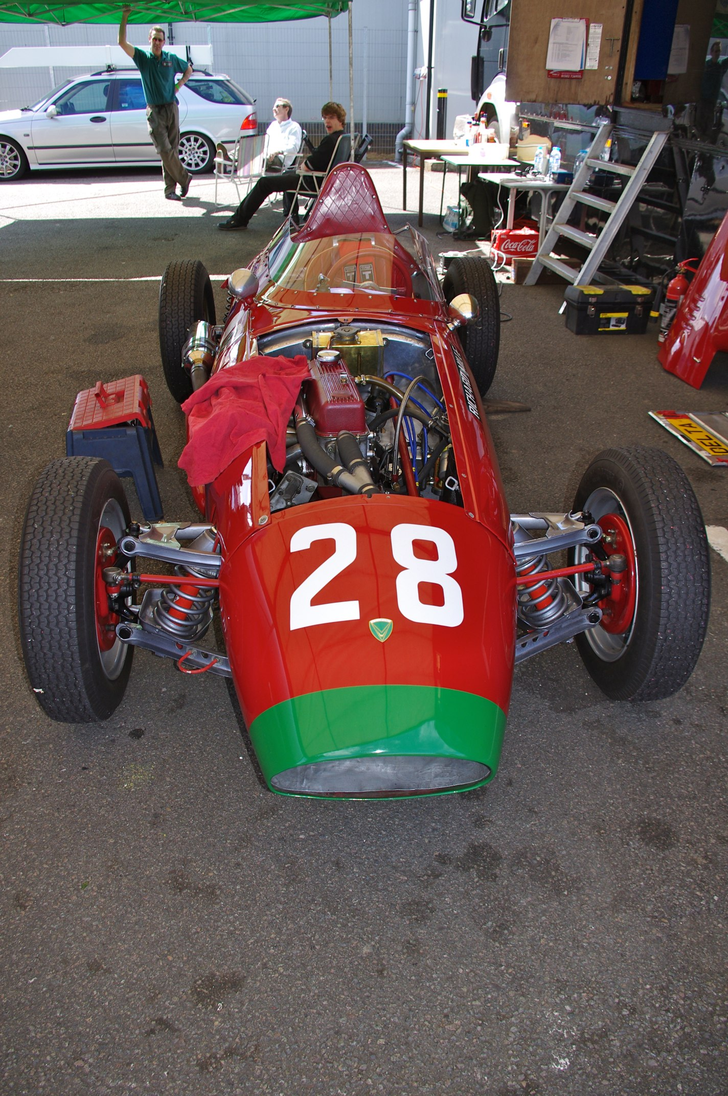 Silverstone Classic 2011